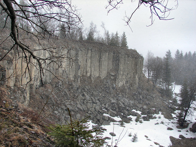 Quarry Hřebečná near summit of Nad Rýžovnou JZ